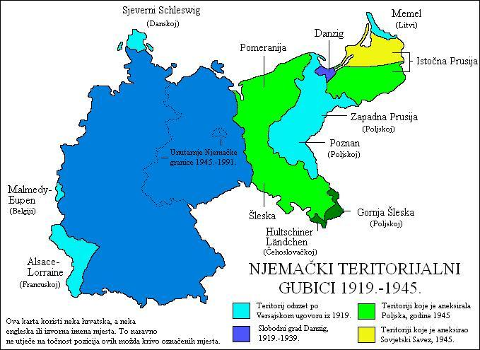 Germany's territorial losses 1919-1945 (Silesia only 1922-1939)